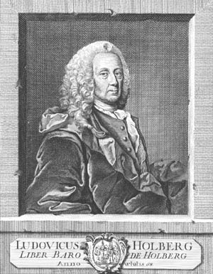 Ludvig Holberg (1684-1754)